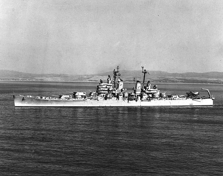 The U.S. Navy heavy cruiser USS Columbus (CA-74) off the coast of Spain on 12 July 1948. Note that she still has her catapults and Curtiss SC-1 "Seahawk" seaplanes. These were landed and replaced with helicopters within a year.